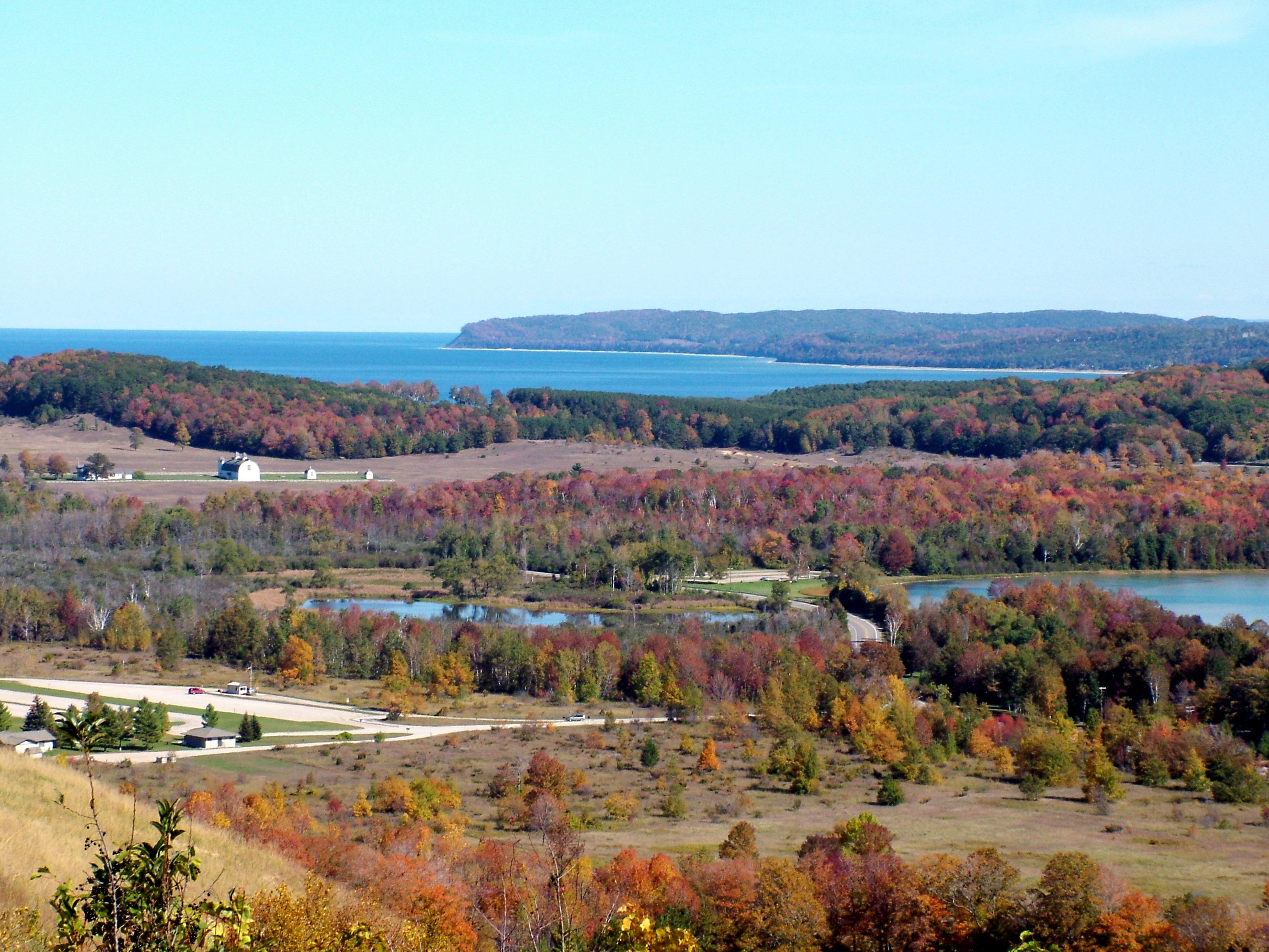 Photo overlooking Glen Lake, M-109 and Sleeping Bear Bay from Sleeping Bear Dune National Lakeshore